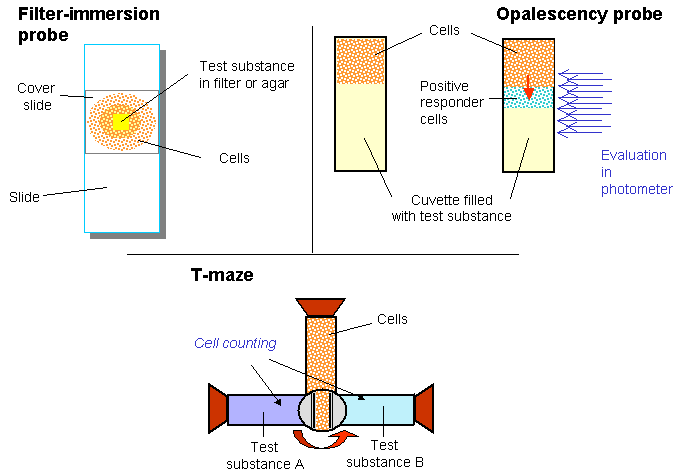 ther Chemotaxis Techniques